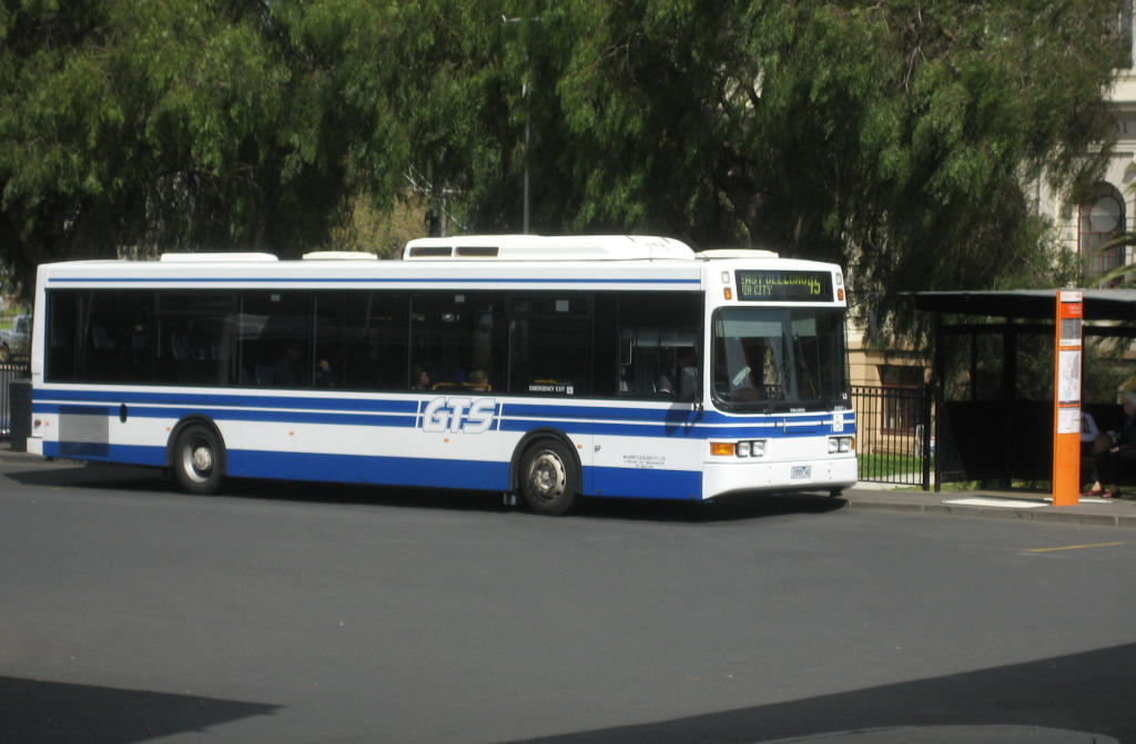 McHarry's Buslines low floor bus in the Geelong Transit System livery.